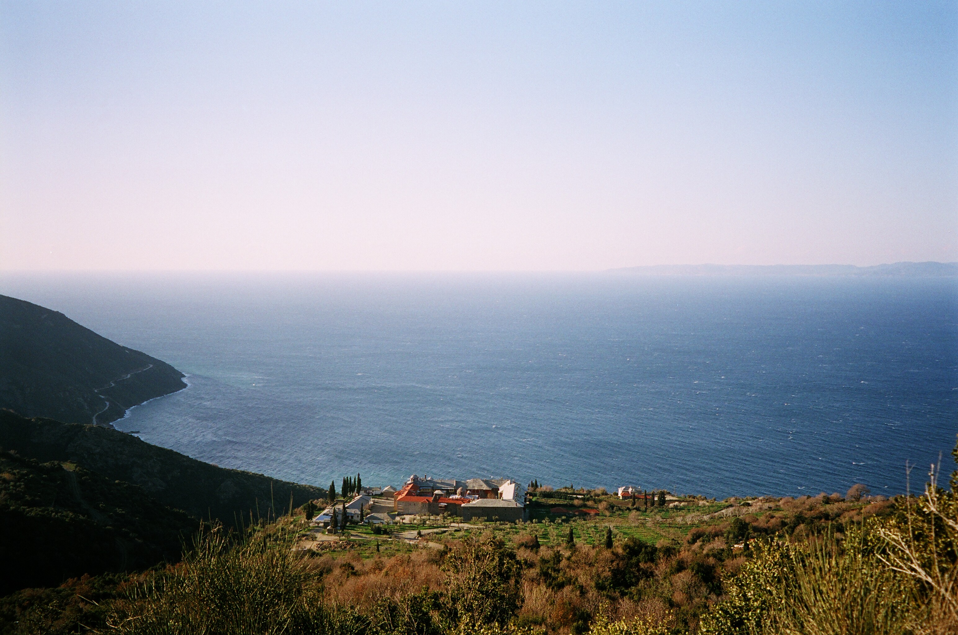 Xiropotamou in Agio Oros, Greece